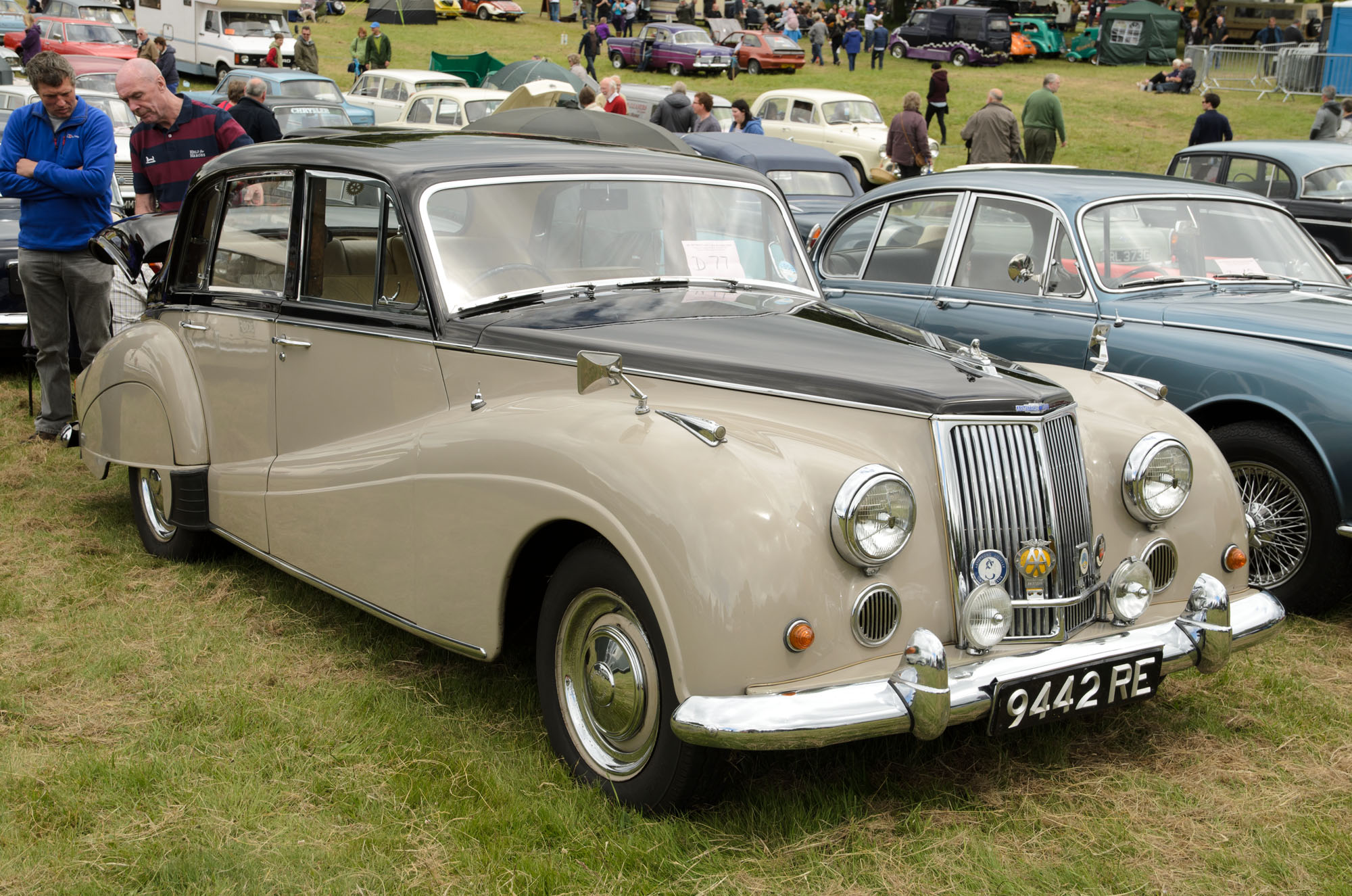 Trentham Gardens Classic Car Show 21/06/2015